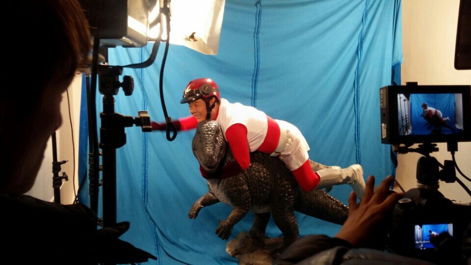 심형래가 영화 '우뢰매' 에스퍼맨과 영화 '용가리'를 패러디하여 화제가 되었다.